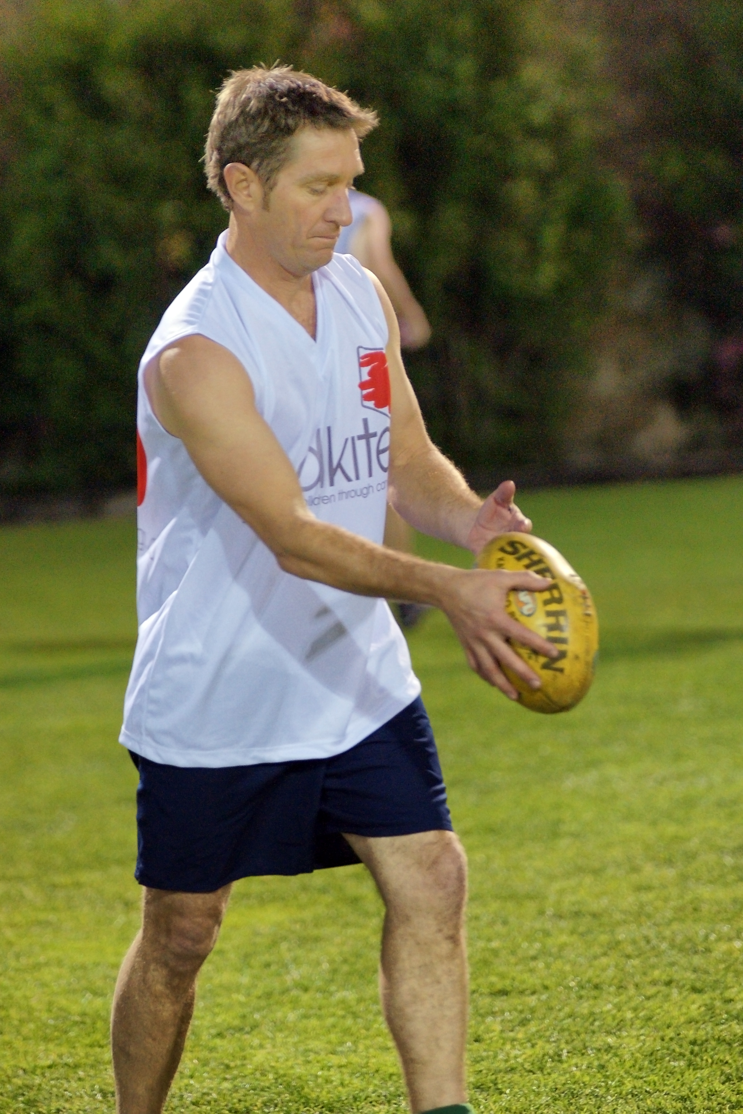 Actor Jon Sivewright playing a warm up session photographed by Damian White